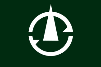 Flag of Yahiko Niigata